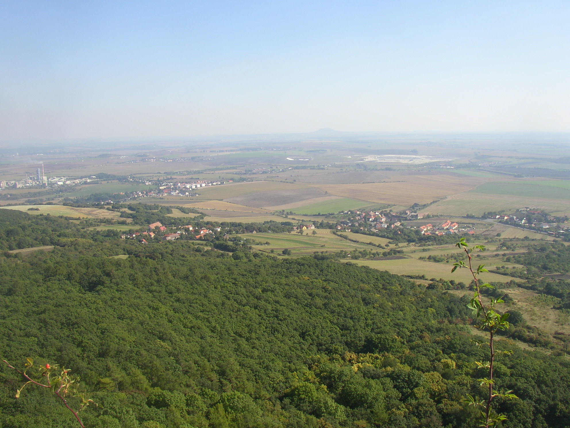 A view from Košťál hill in České středohoří Mts. towards SE. In the right village of Jenčice, in the upper left corner Čížkovice cement works and village of Čížkovice.